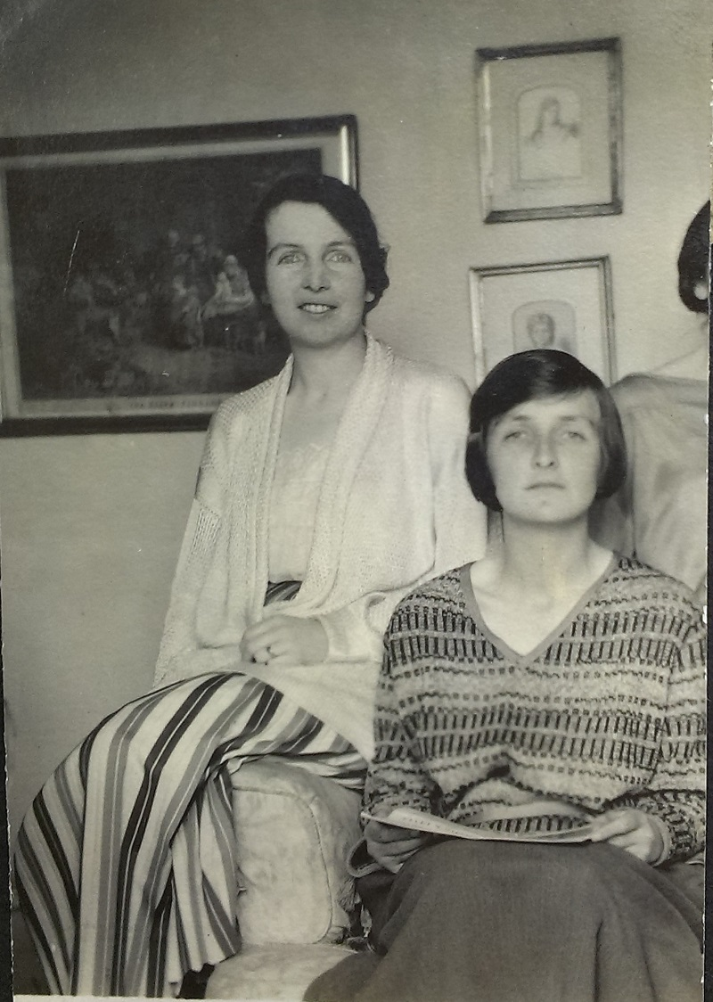 Nancy and Kate O’Brien